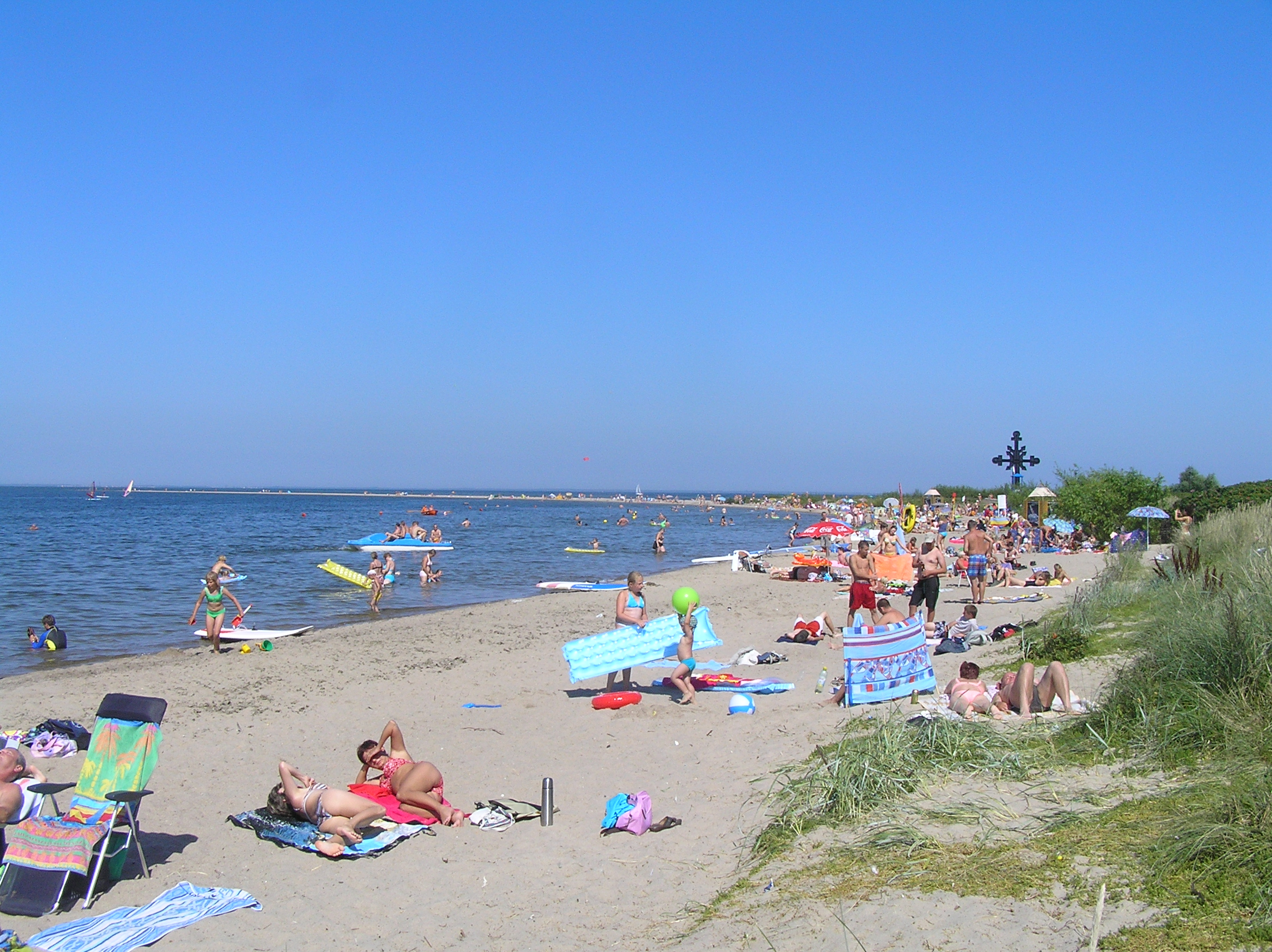 Beach in Rewa